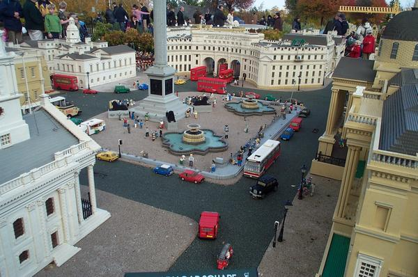 Model of Trafalgar Square in London (detail), as seen in Legoland Windsor